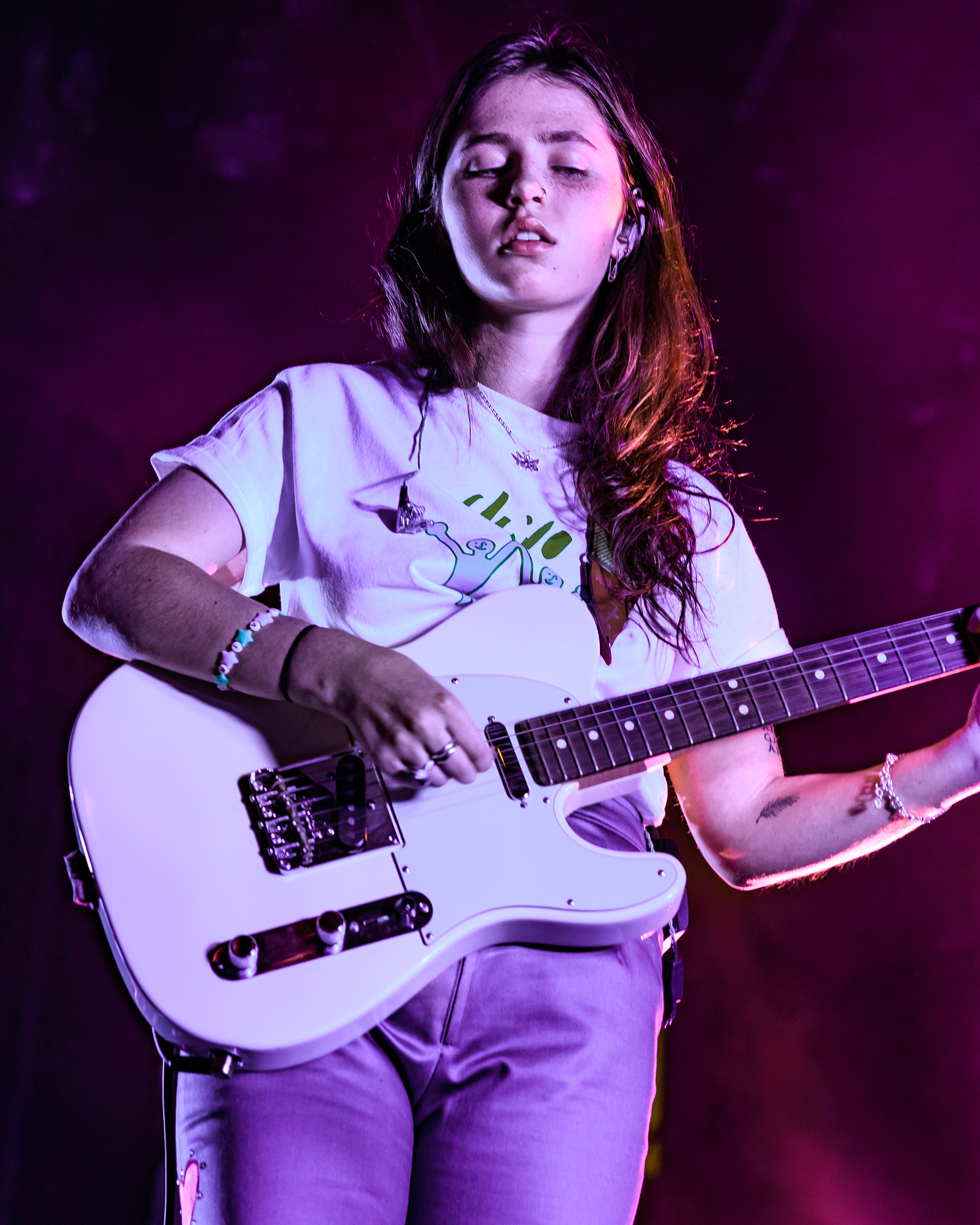 Clairo performing live at the El Rey theatre in Los Angeles, California, on Thursday, April 11, 2019. Shot for Ones To Watch.